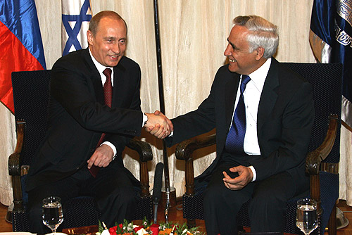 JERUSALEM. Meeting with President of Israel Moshe Katsav.